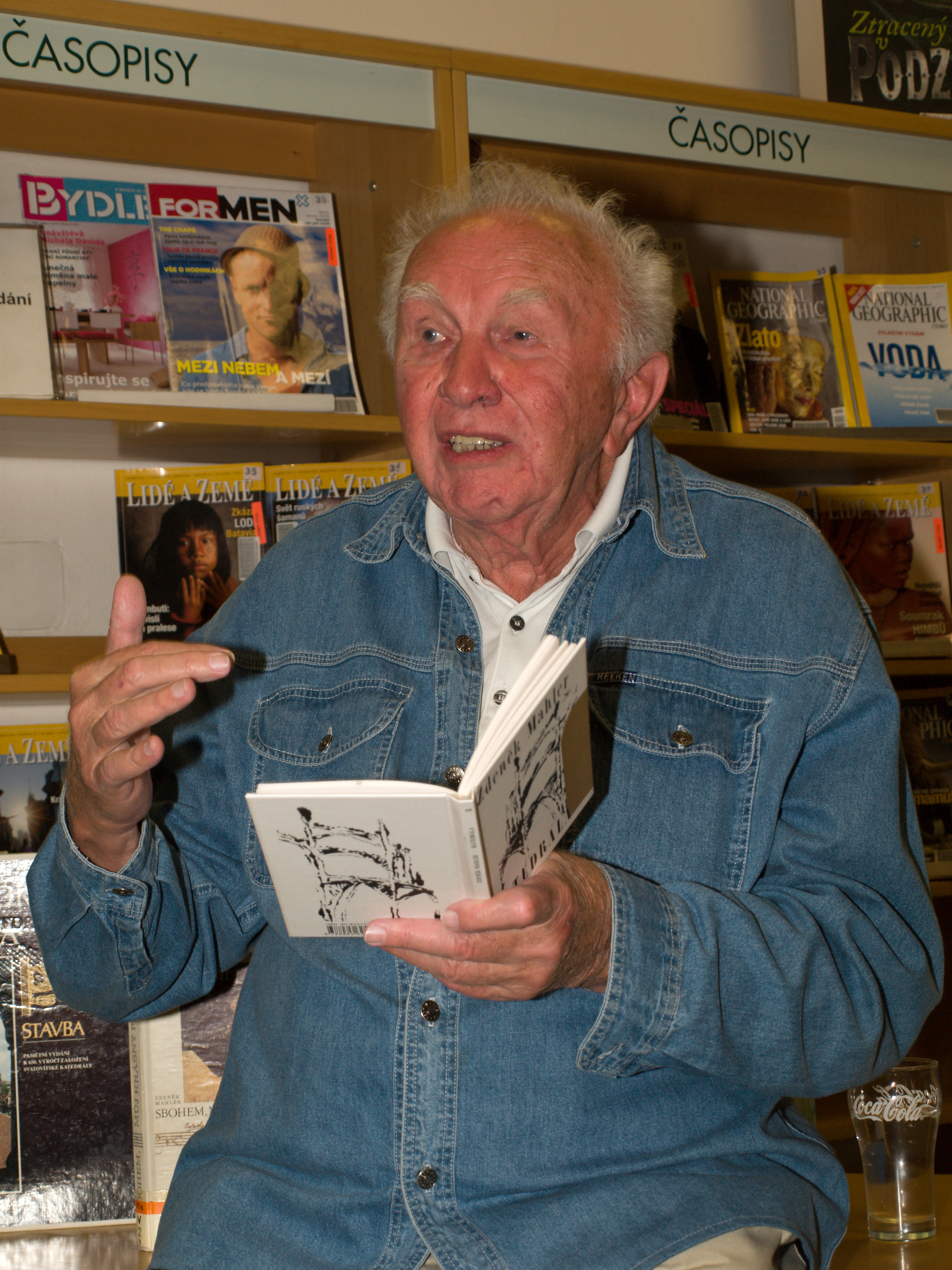 Czech writer Zdeněk Mahler